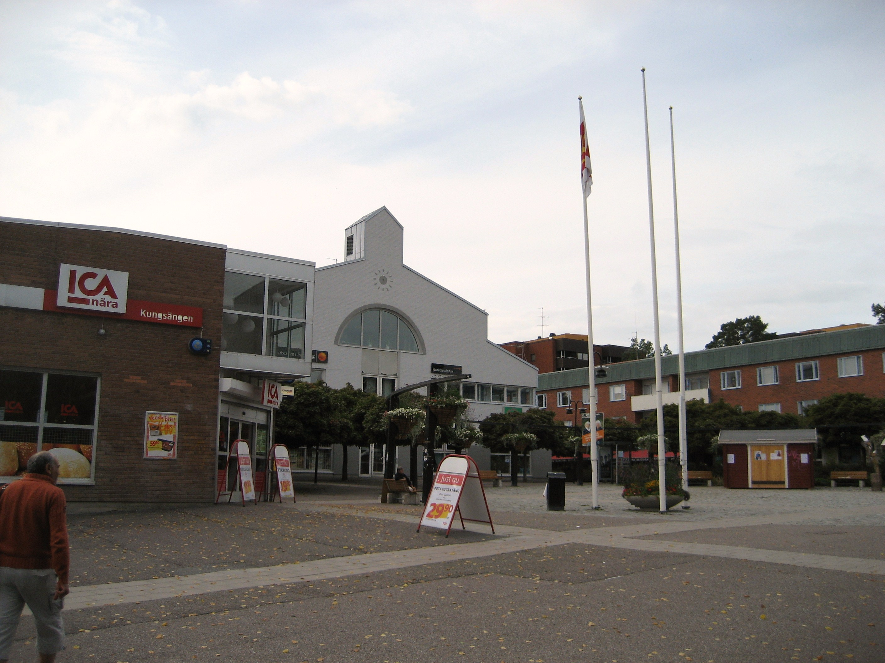 Kungsängen, Stockholm county